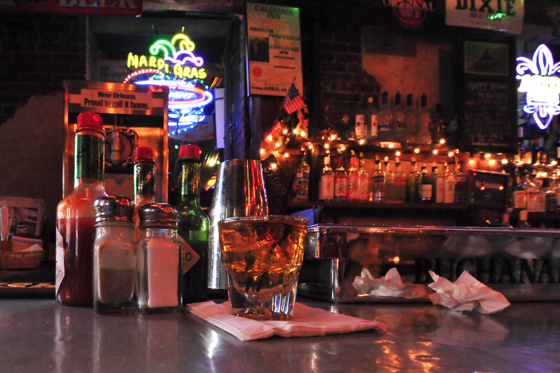 The Delta Grill - Nice decorations in the bar, but not so nice food as I found out.